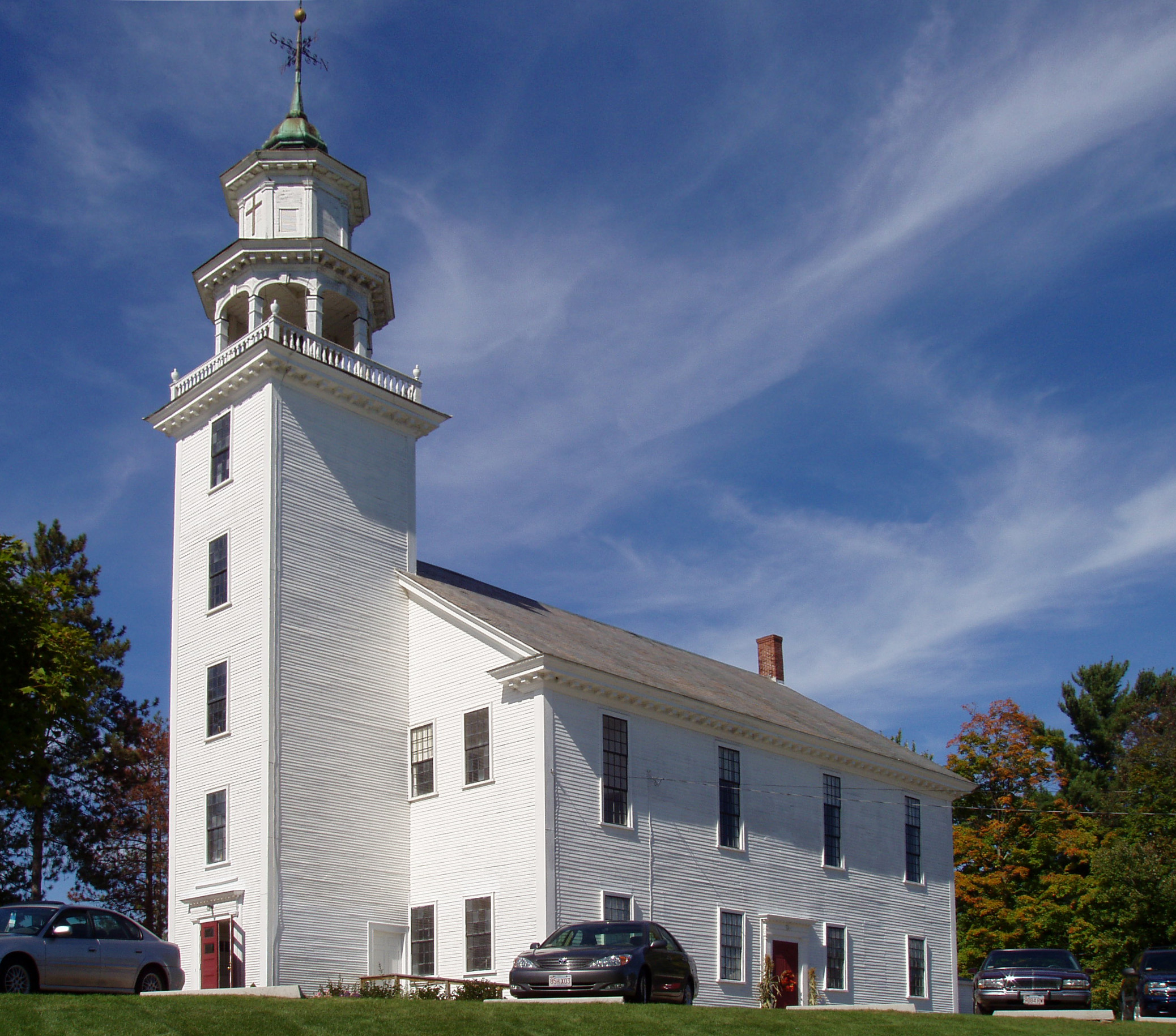 United Methodist Church - Townsend, Massachusetts. This was Townsend's 2nd meeting house, built 1770, and moved to this location in 1804. Photograph taken by me, October 2005.